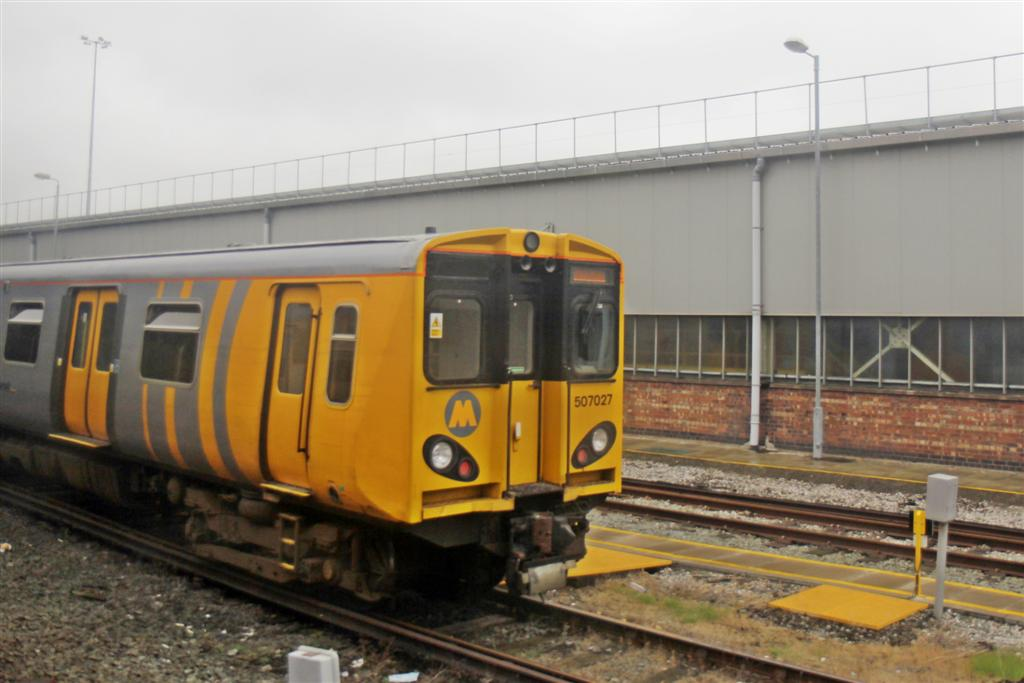 Stabling point, Birkenhead North TMD